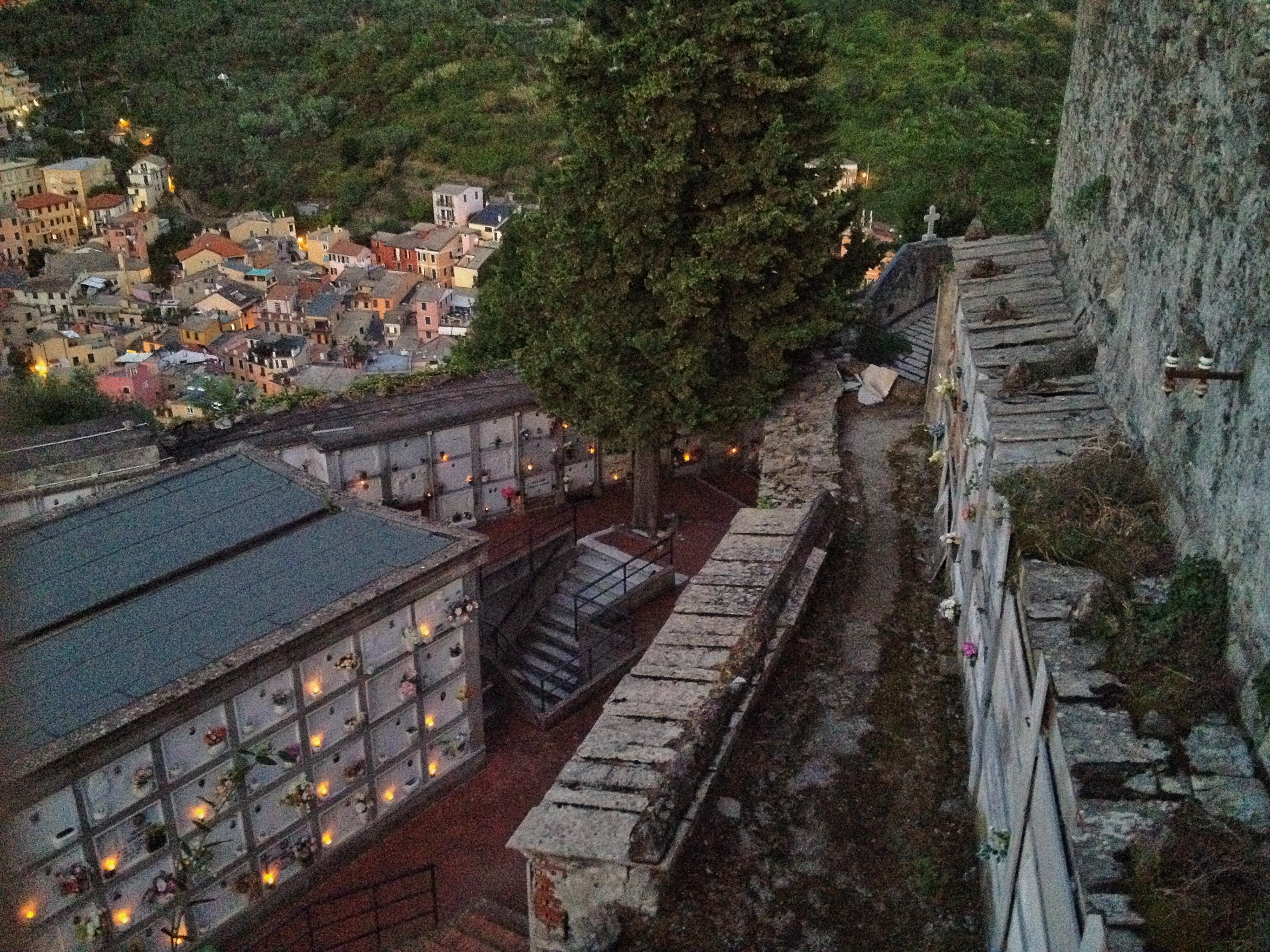 The Cemetery inside the convent in Monterosso al Mare, Italy